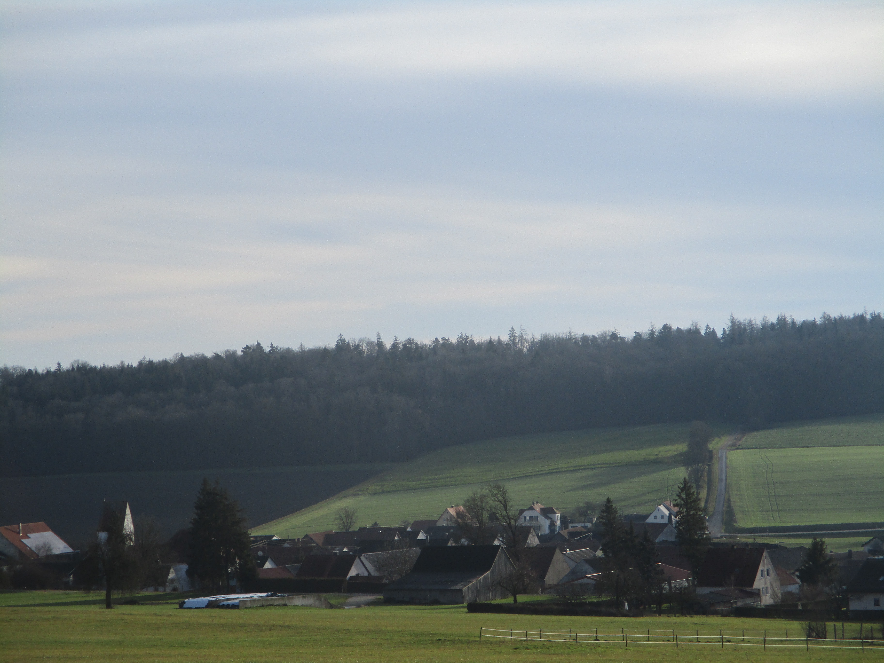 The village of Warching, Bavaria, near Monheim, seen from the north.